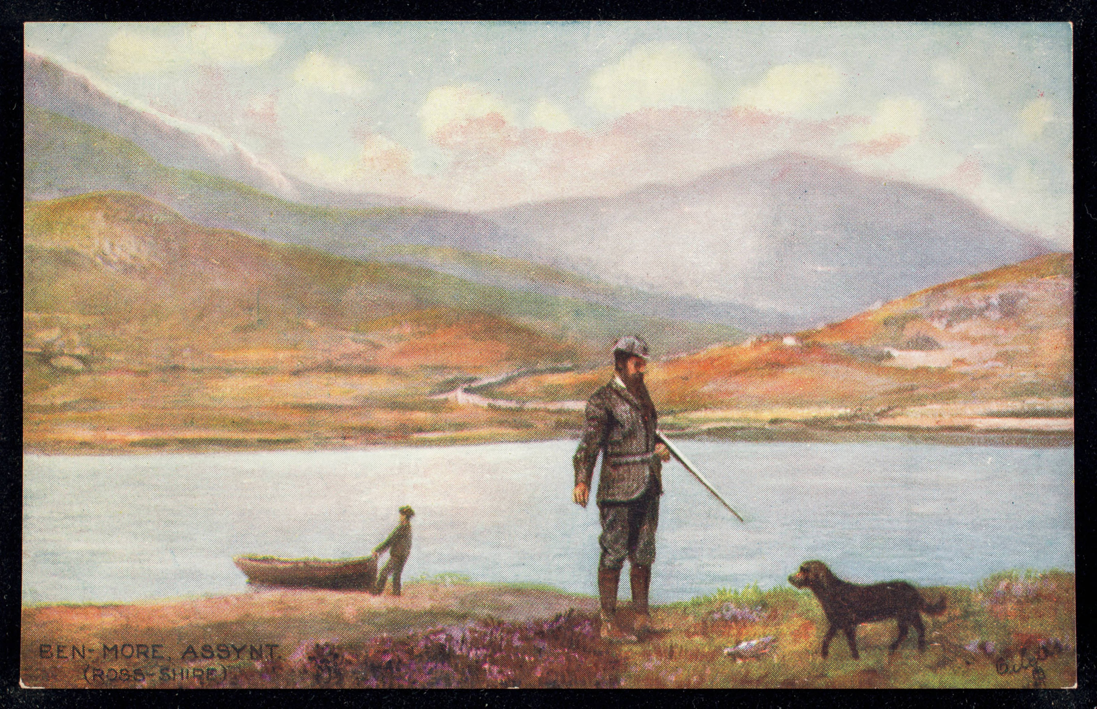 Ben-More, Assynt. (Ross-shire).